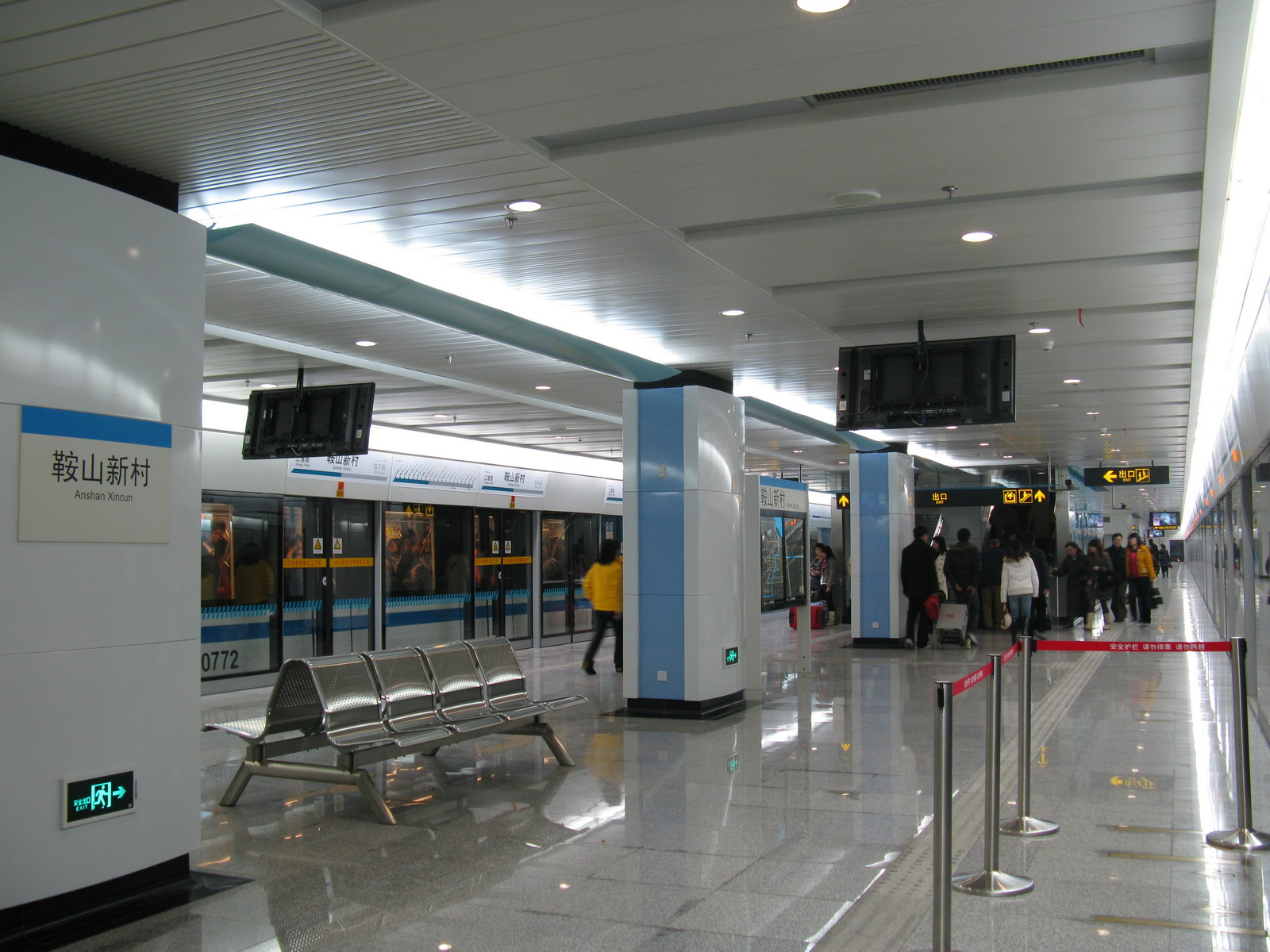 鞍山新村站 8号线月台 Line 8 Platform of Anshan Xincun Station